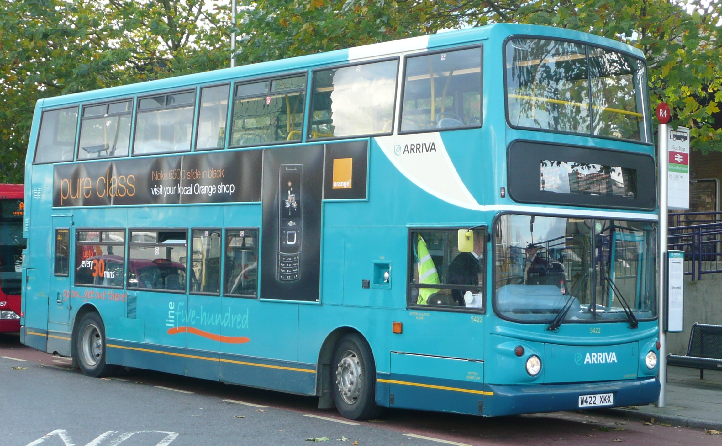 An Arriva the Shires bus on the forecourt of Oxford railway station, Oxfordshire. It is branded for route 500 but is working on route 280. The bus is a Dennis Trident 2 on an Alexander ALX400 body, fleet number 5422, registration number W422 XKX.